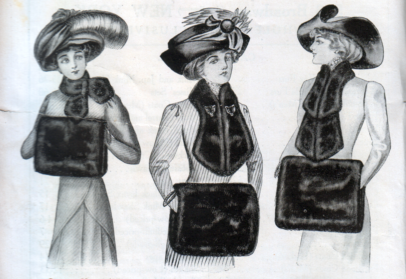 The Fur House Max Neuburger & Co, No 598 Broadway, New York, Season 1910-11